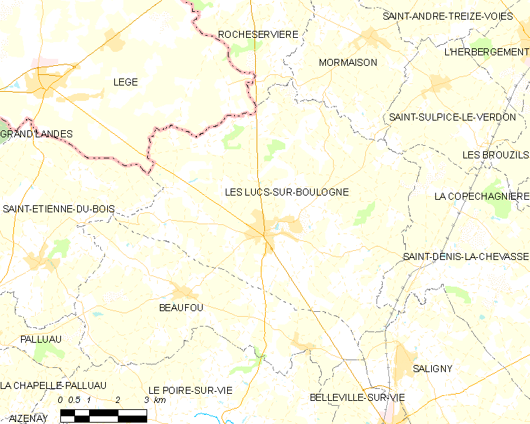 Map of French municipality Les Lucs-sur-Boulogne